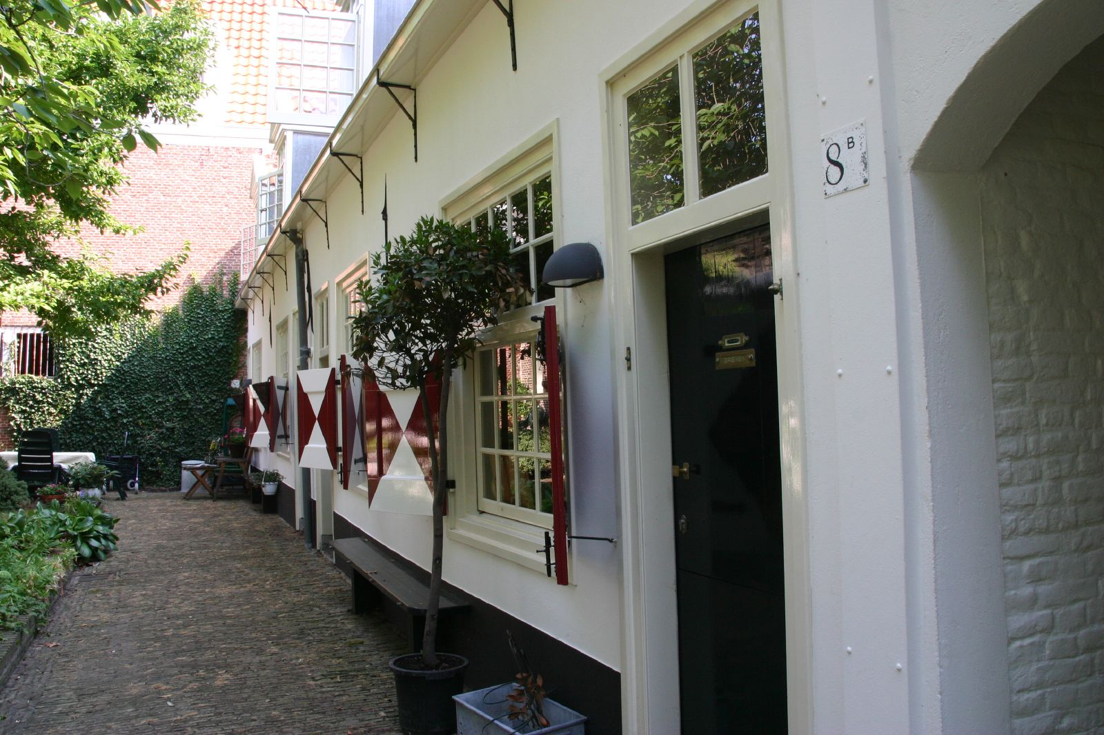 Almhouse 'Brouwershofje' in Haarlem (translated: Brewershof). Adres: Tuchthuisstraat 8, Haarlem, The Netherlands. Originally build in 1457. Burned to the ground in 1576 en rebuild in 1586.